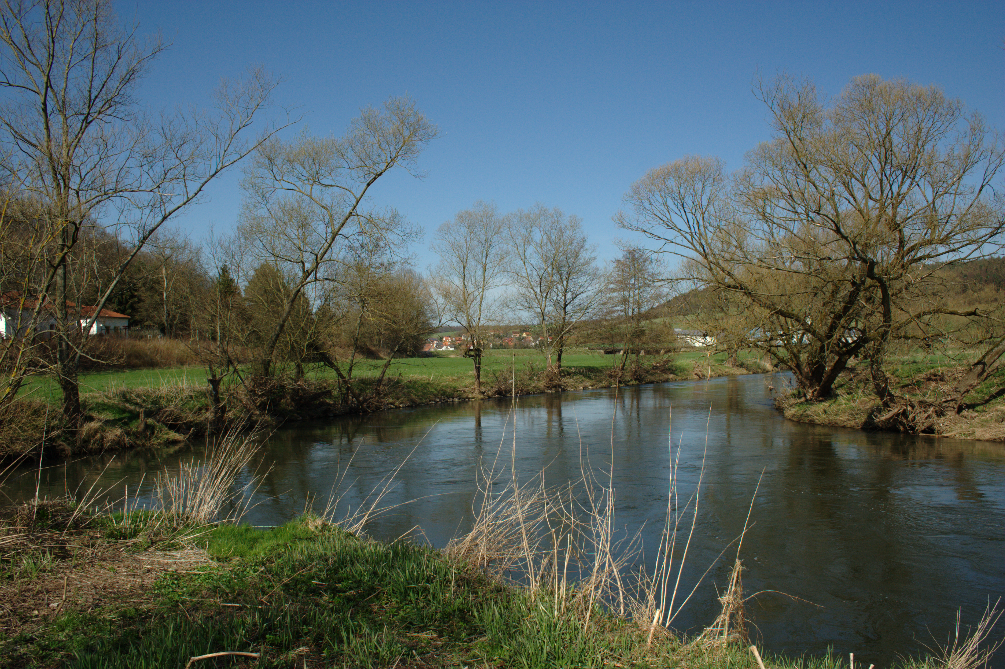 Confluence of rivers, the Fulda (right) is joined by the Schlitz River (left).